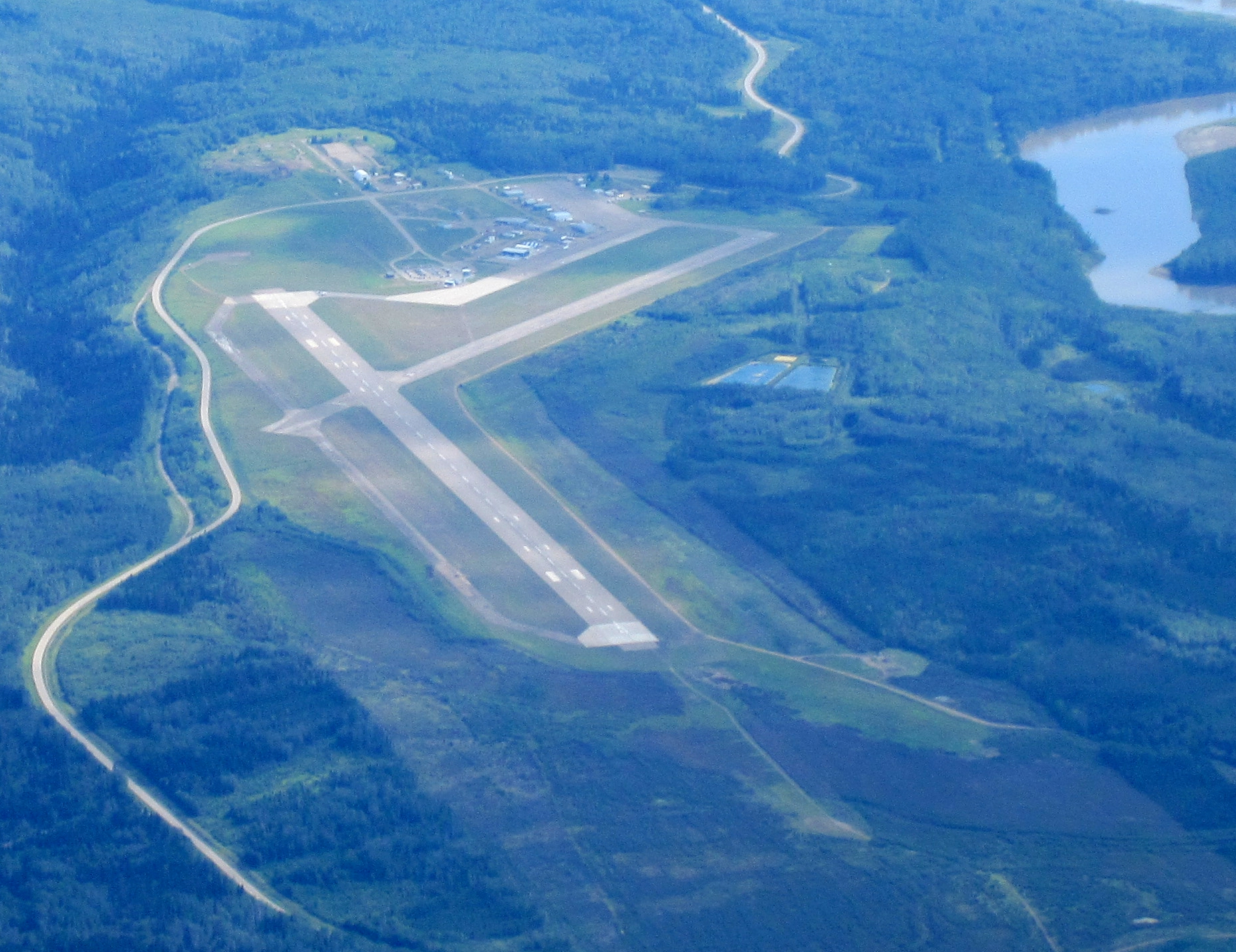 Fort Nelson Airport, BC. July 24, 2011